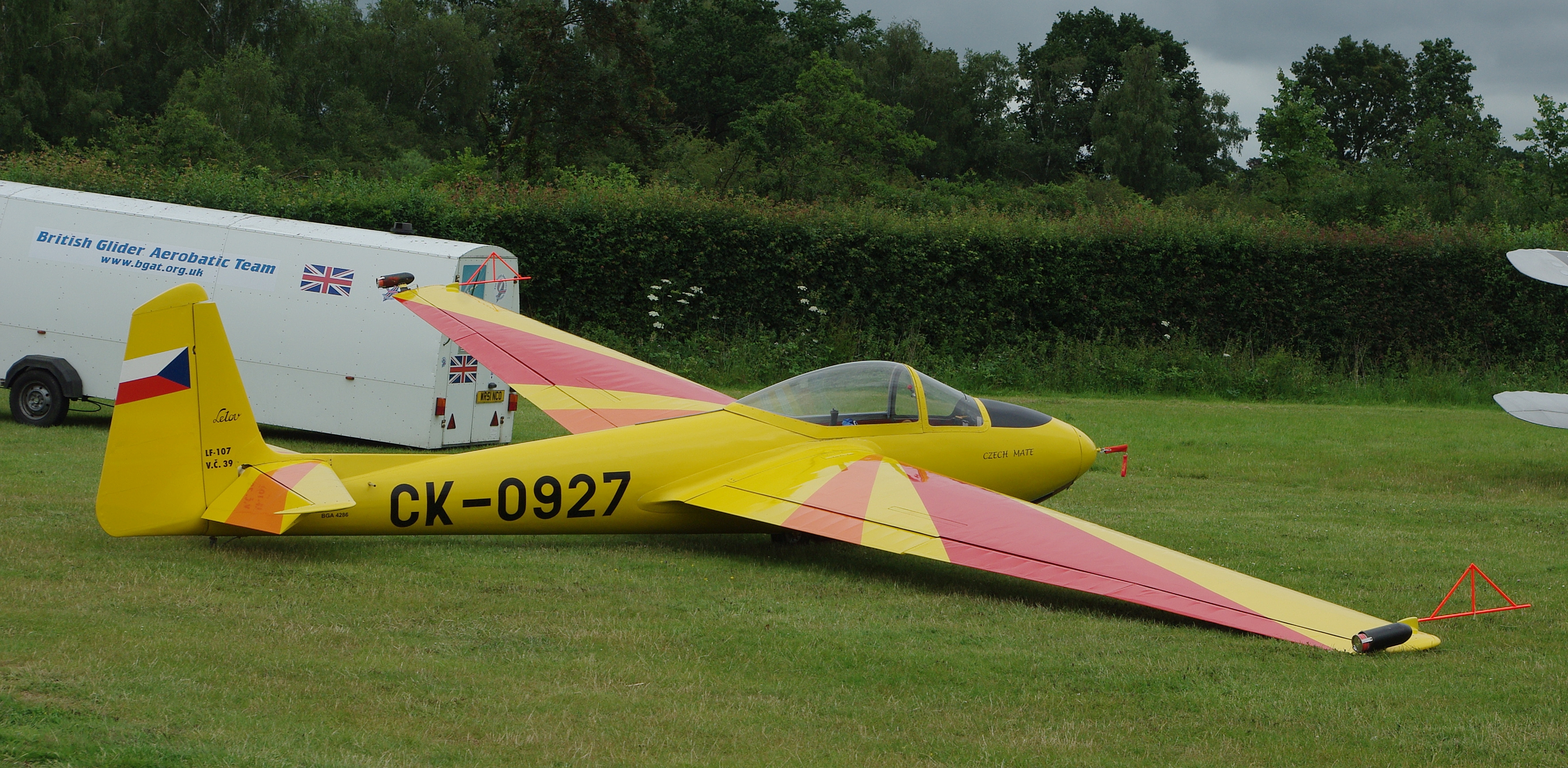 Letov Lunak at Old Warden June 2014, equipped for aerobatics